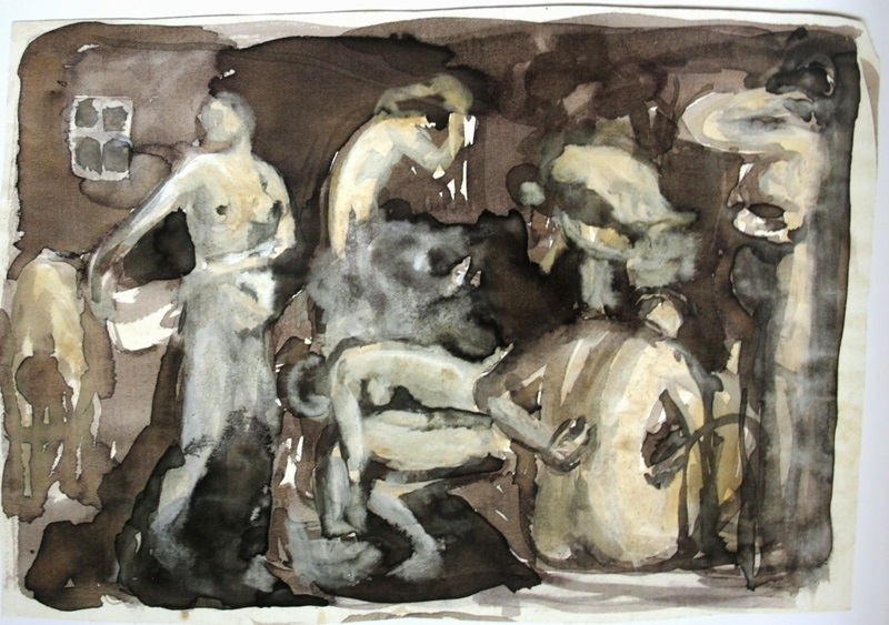 The bath-house (study by Zinaida Serebriakova, 1912-1913)